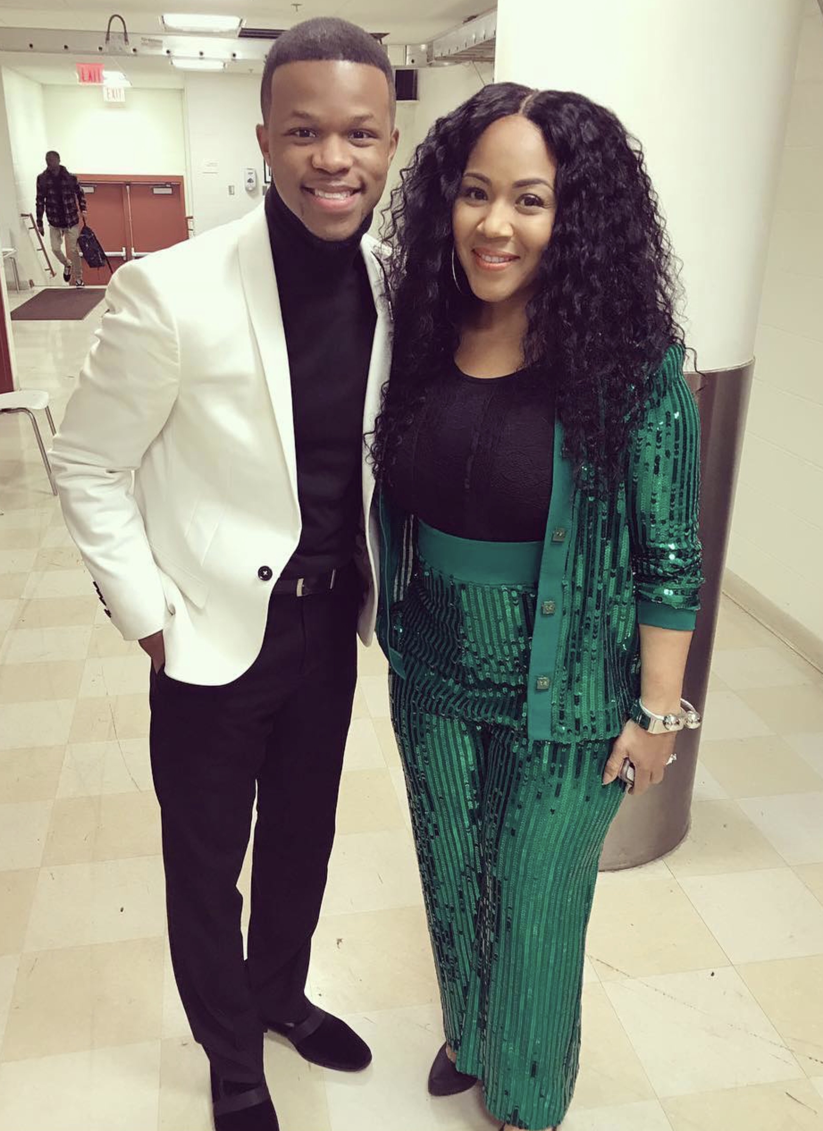 Singers, Kelontae Gavin, and Erica Campbell (of Mary Mary fame), pose for a photo backstage at the Schuster Performing Arts Center in Dayton, OH during the "Gospel Superfest" TV taping on February 10, 2018.